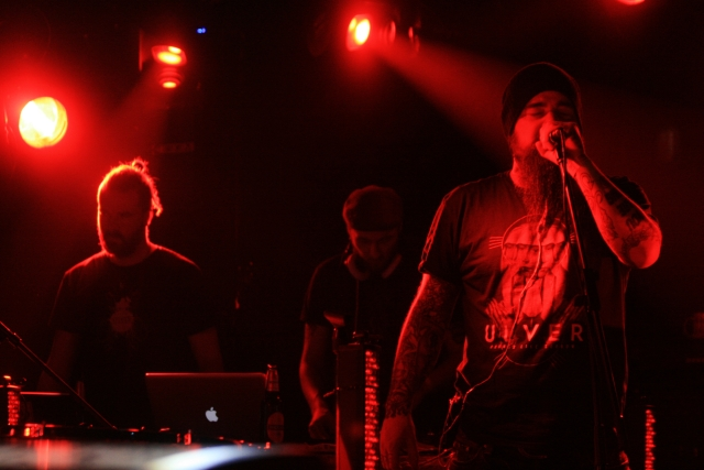 Ulver live at Gellert (Budapest) in 2010.